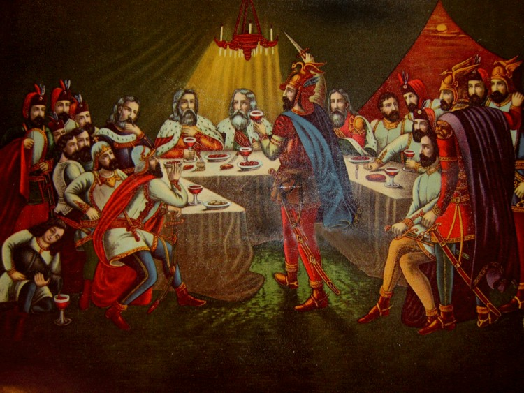 Painting of Knez Lazar's night before the Battle of Kosovo, dated 1870, by Adam Stefanović.